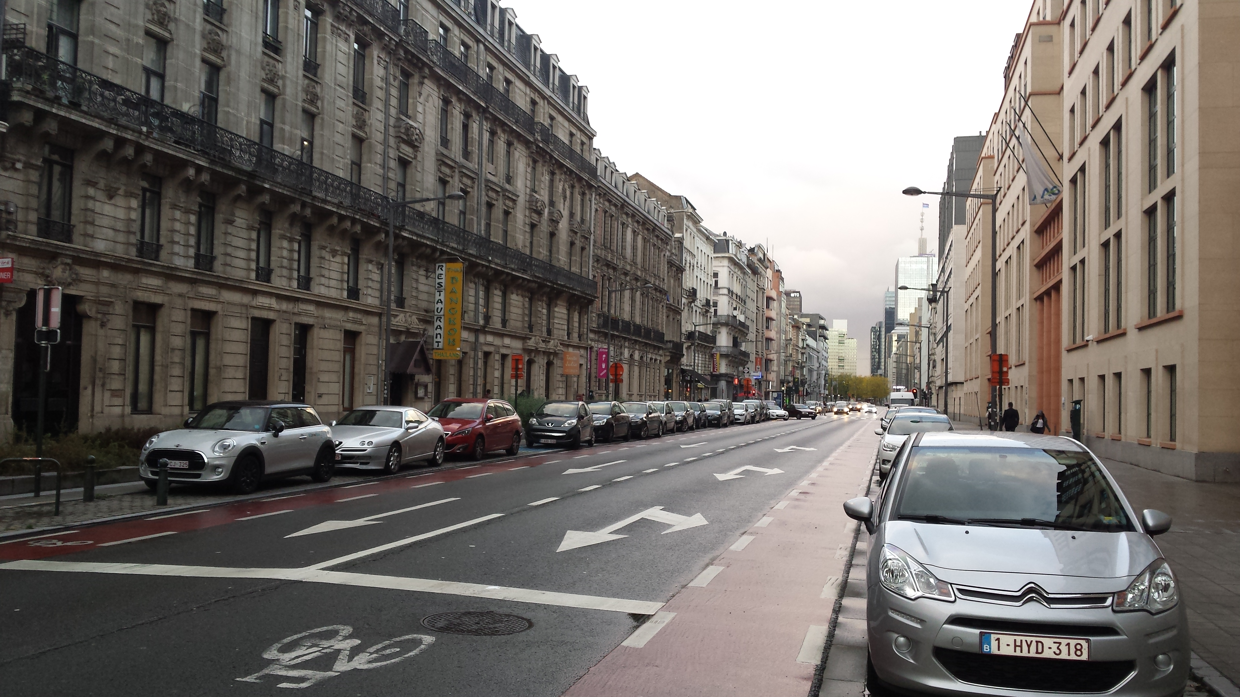 Boulevard Emile Jacqmain in Brussels